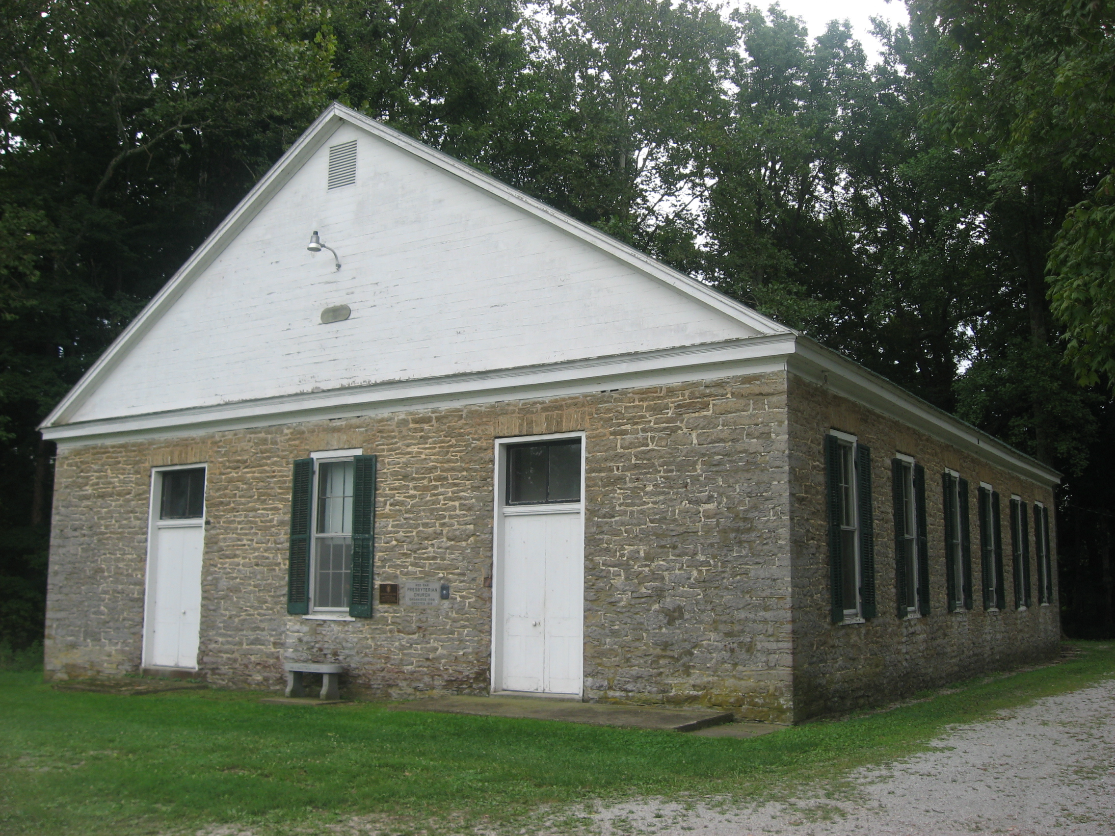 Front and western side of the Red Oak Presbyterian Church, located on Cemetery Road north of Ripley in Union Township, Brown County, Ohio, United States. Built in 1817, it is listed on the National Register of Historic Places.